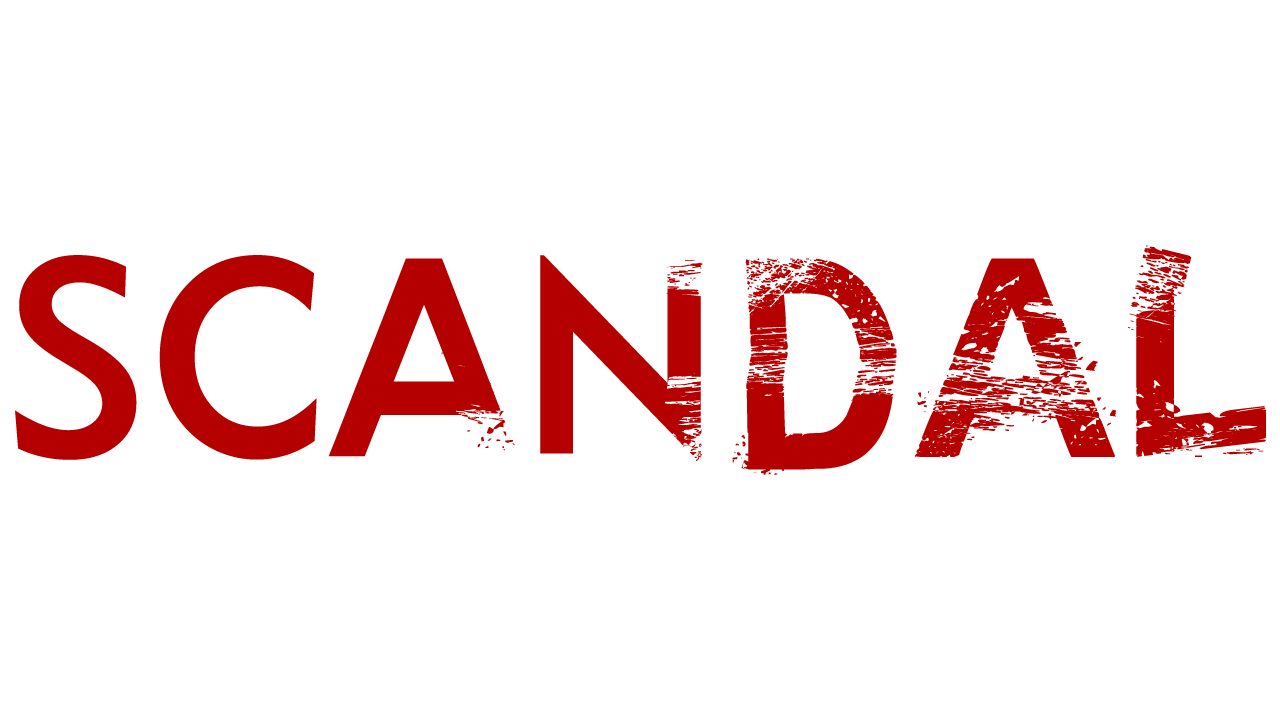 Scandal Logo